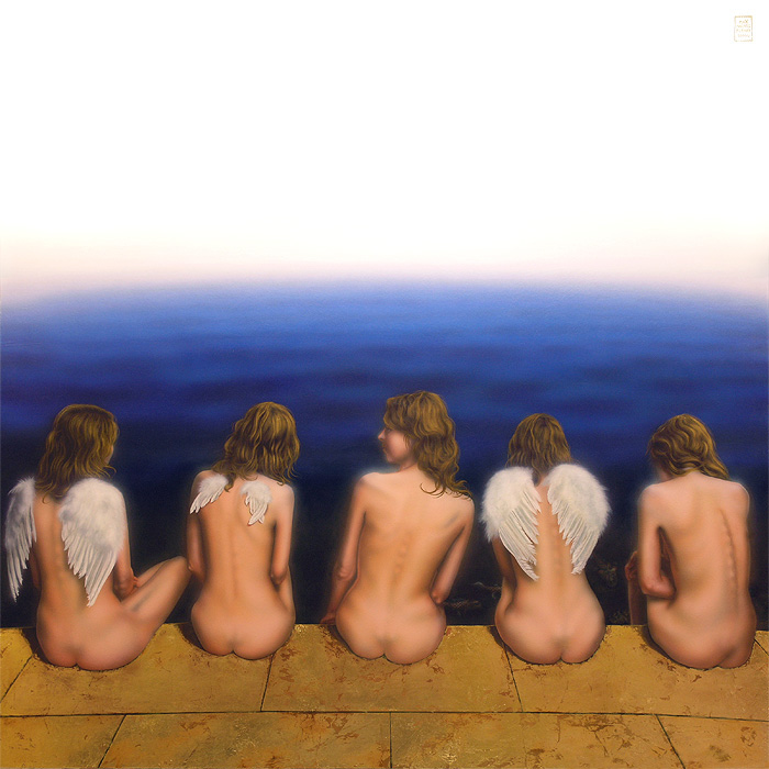 Five angels sit on a golden quay. Fish swim in the water.